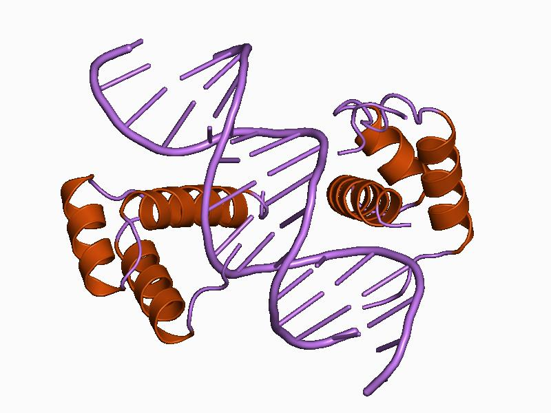 Cartoon representation of the molecular structure of protein registered with 1b8i code.